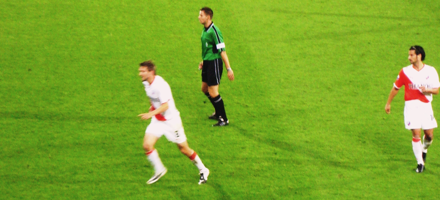 Michael Silberbauer, referee Pol van Boekel and Simon Cziommer during a football match of FC Utrecht